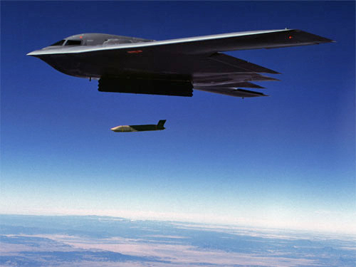 B-2 launching an AGM-158 JASSM